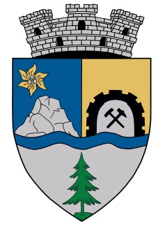 Coat of arms of Bălan township, Harghita County, Romania